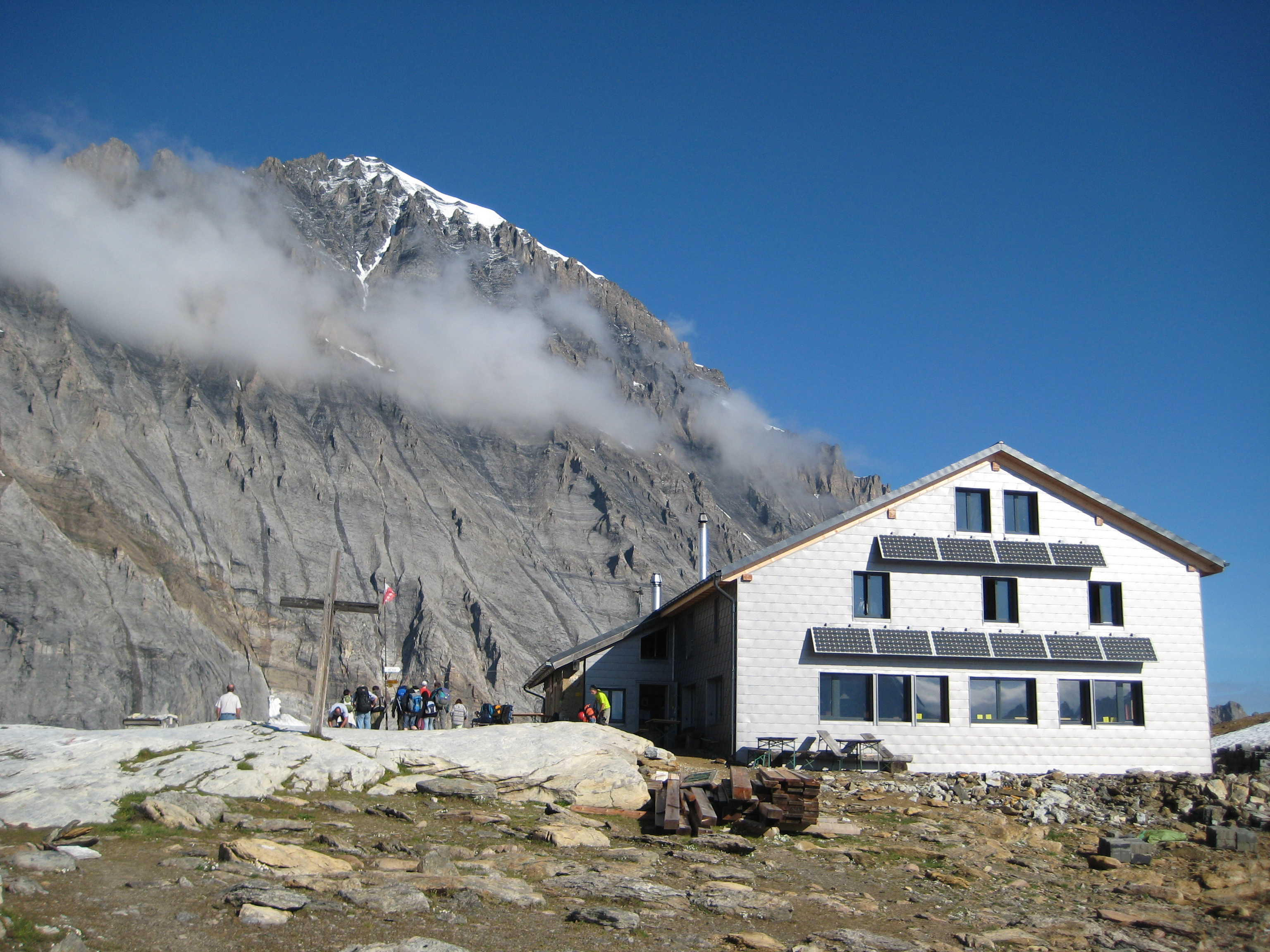 Loetschepasshut after renovation. In the background the eastface of the Balmhorn.